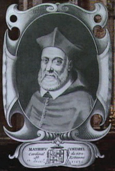 French Cardinal living in Rome in the 16th century, better known as Matteo Contarelli. His private chapel was decorated after his death by Caravaggio and G.Cesari.